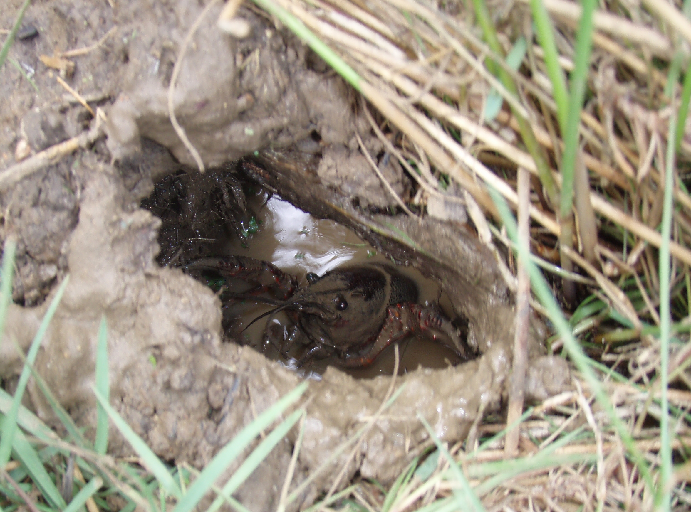 Crayfish (Astacidae) is digging his burrow